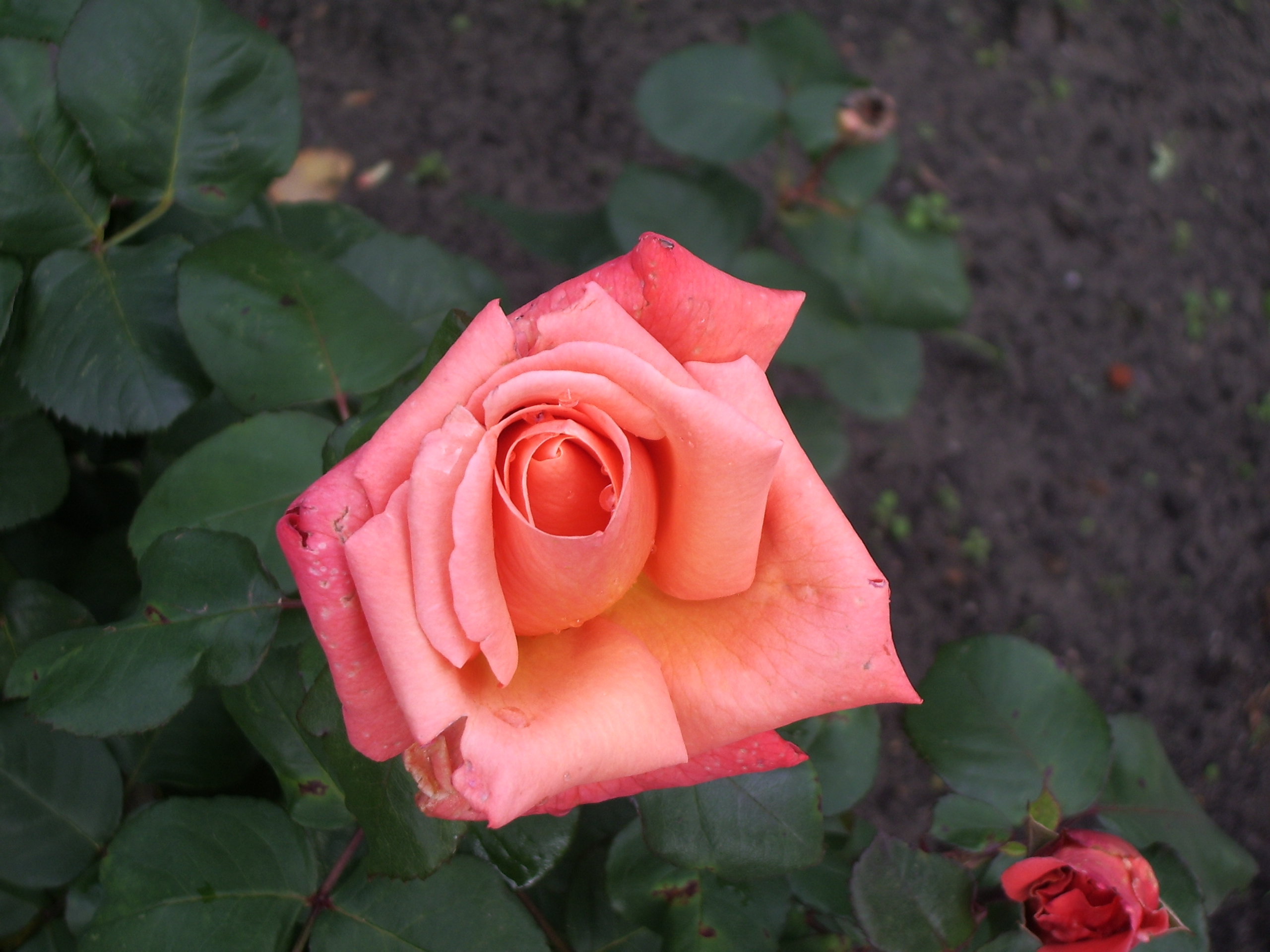 Rosa 'Christopher Columbus'